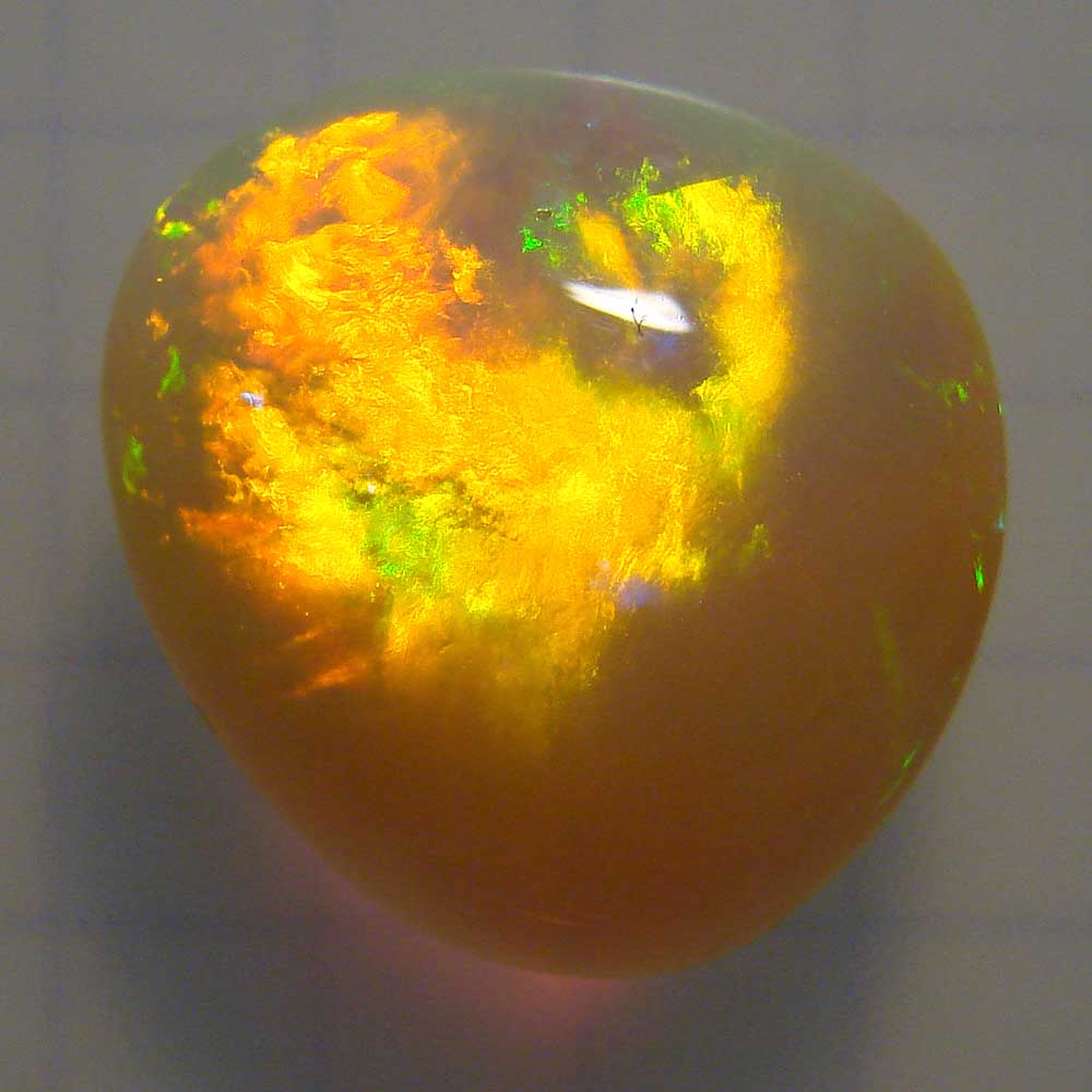 A gold colored opal.